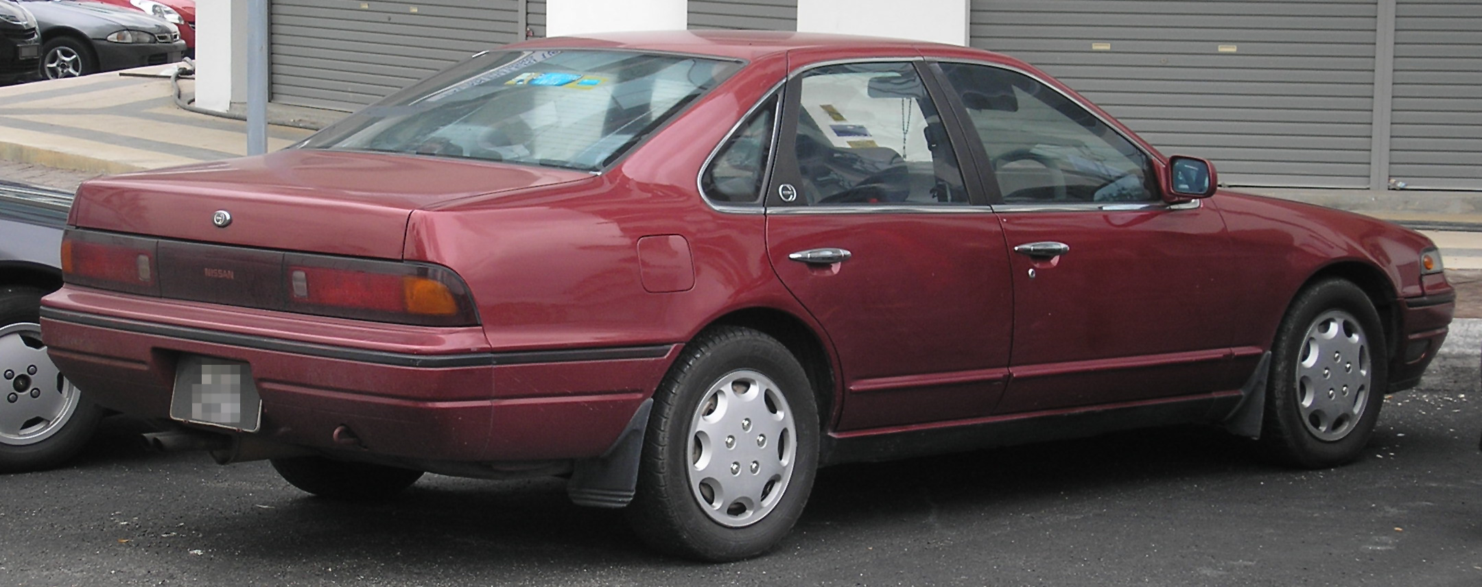 Rear quarter view of a first generation Nissan Cefiro, in Serdang, Selangor, Malaysia.